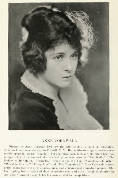 Actress Anne Cornwall from Who's Who on the Screen, published by Ross Publishing Co., 1920 [1]